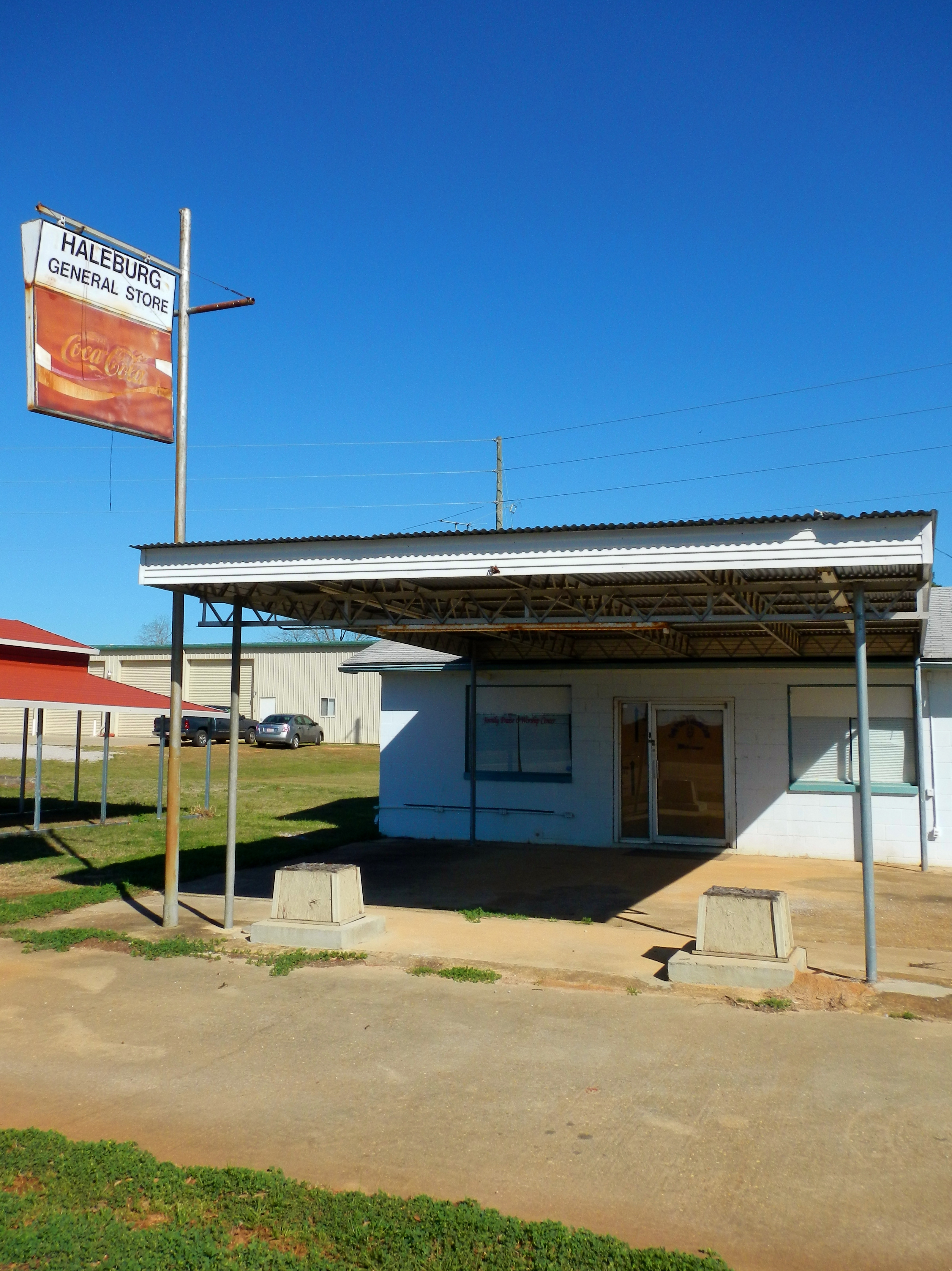 This is a photograph of the Haleburg General Store in Haleburg, Alabama.